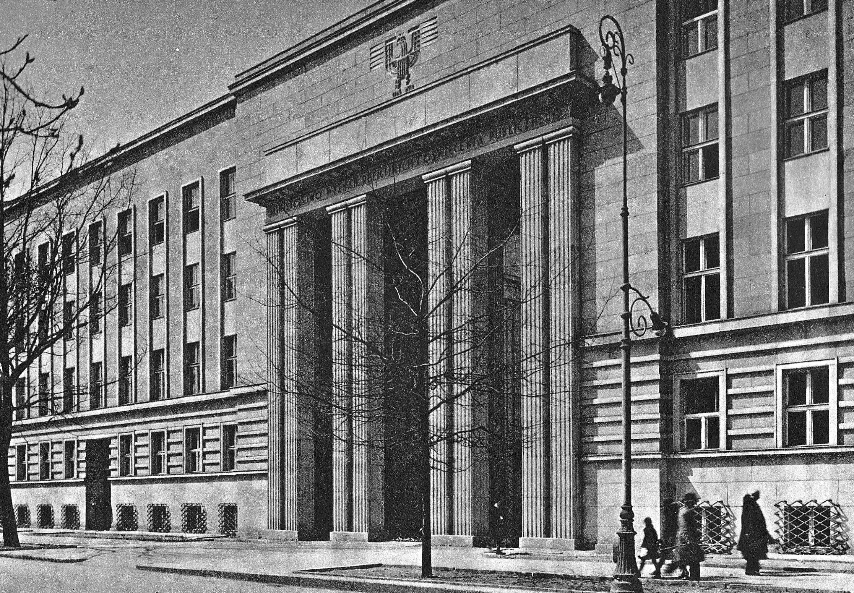 Building of the prewar Ministry of Religious Beliefs and Public Enlightenment in Warsaw, in 1939-1944 the seat of Gestapo for Warsaw District